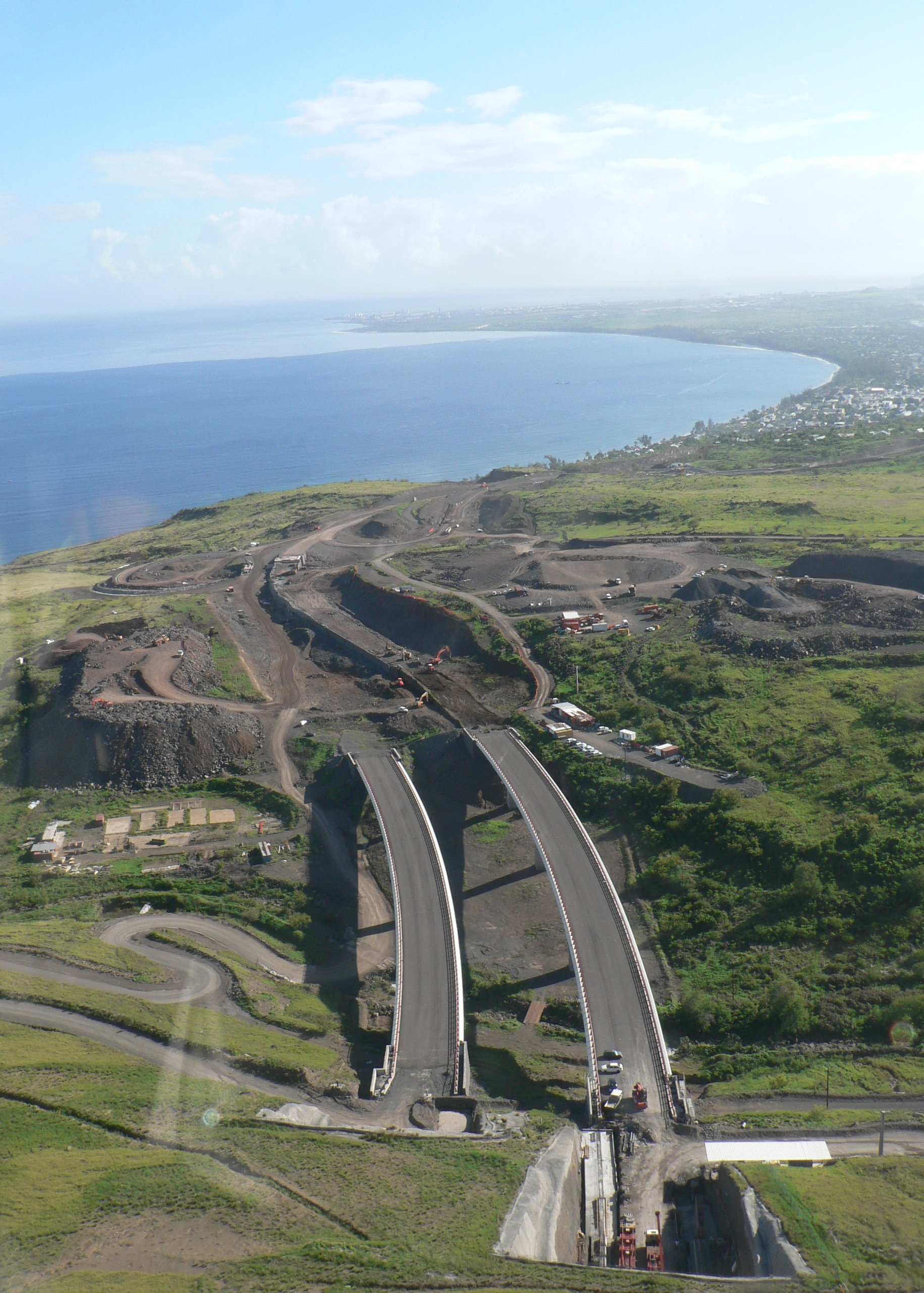 Workings of the Route des Tamarins on Réunion island